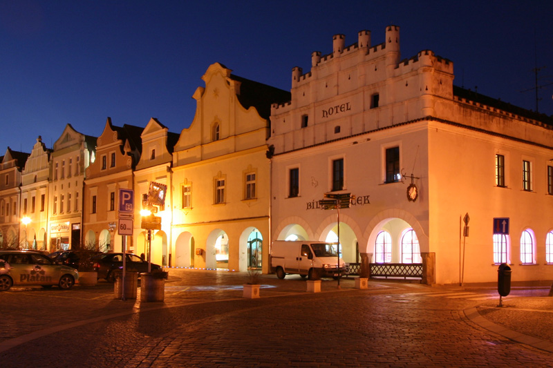 Bílý koníček hotel, Třeboň, Czech Republic